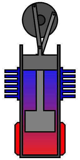 By Richard Wheeler (Zephyris)) 2007. Single frame of Image:Stirling Animation.gif.